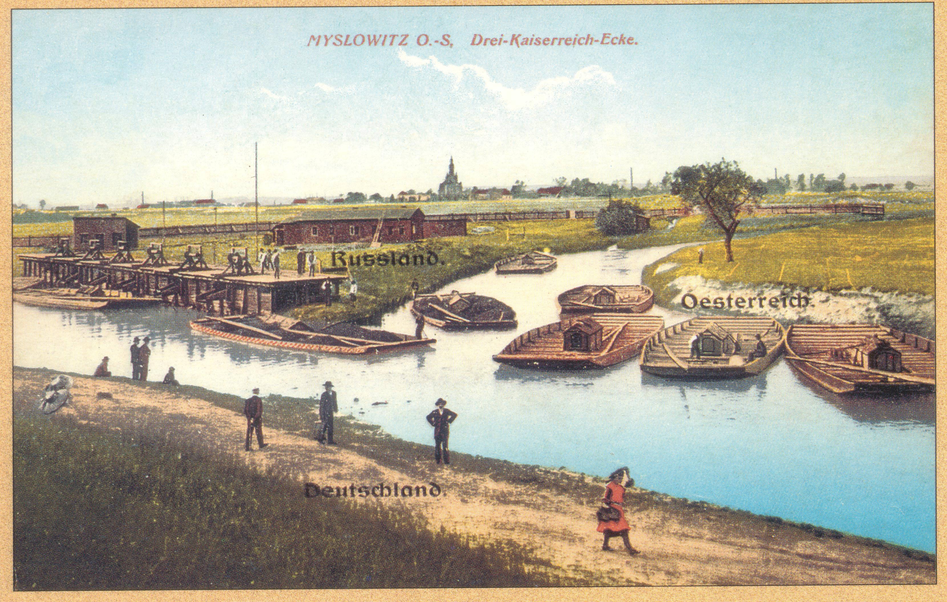 Triangle of three emperors, Mysłowice/Sosnowiec (Poland)